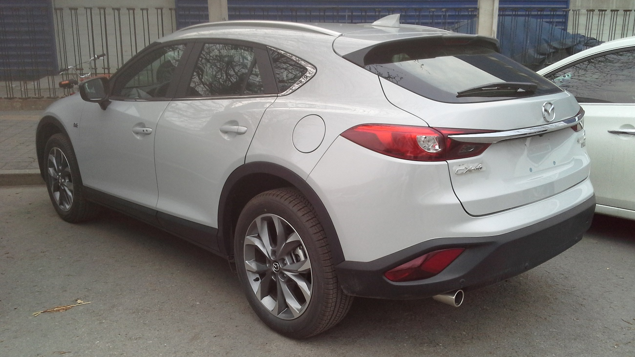 Mazda CX-4 photographed in Beijing, China.